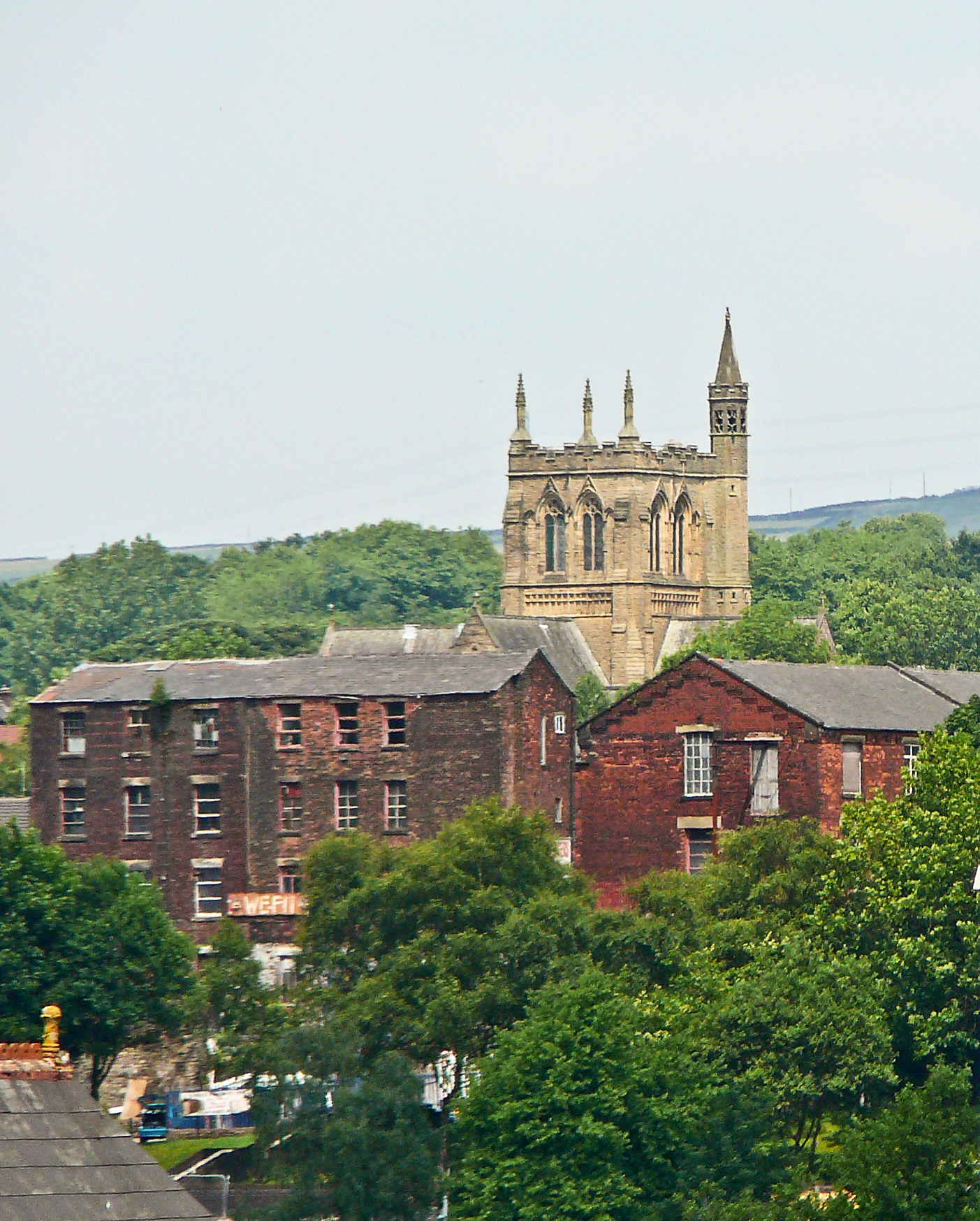 Roofscape of part of Rochdale, Greater Manchester, England, with the tower of the redundant Masonic church of St Edmund